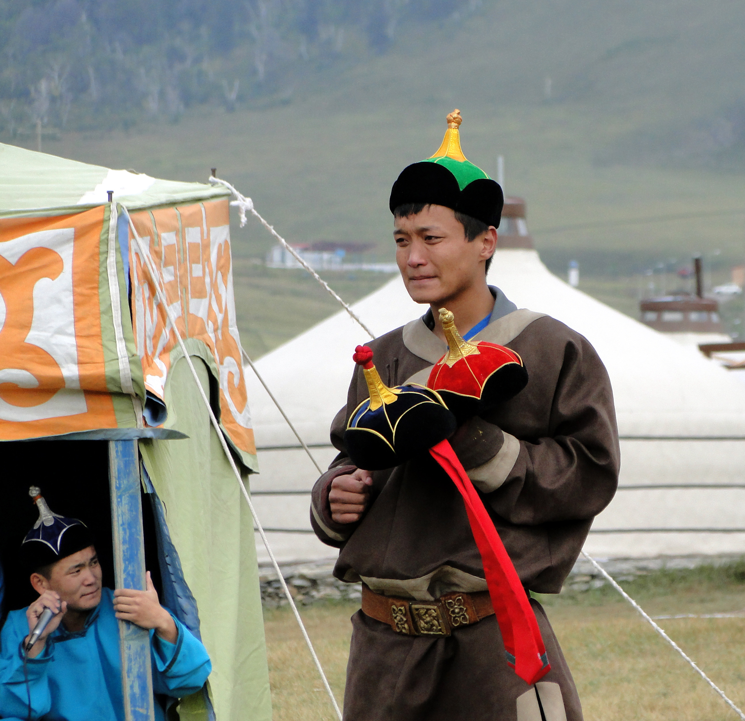 Each wrestler has his own encourager or motivator called a zasuul, who sings a song of praise to the wrestler.